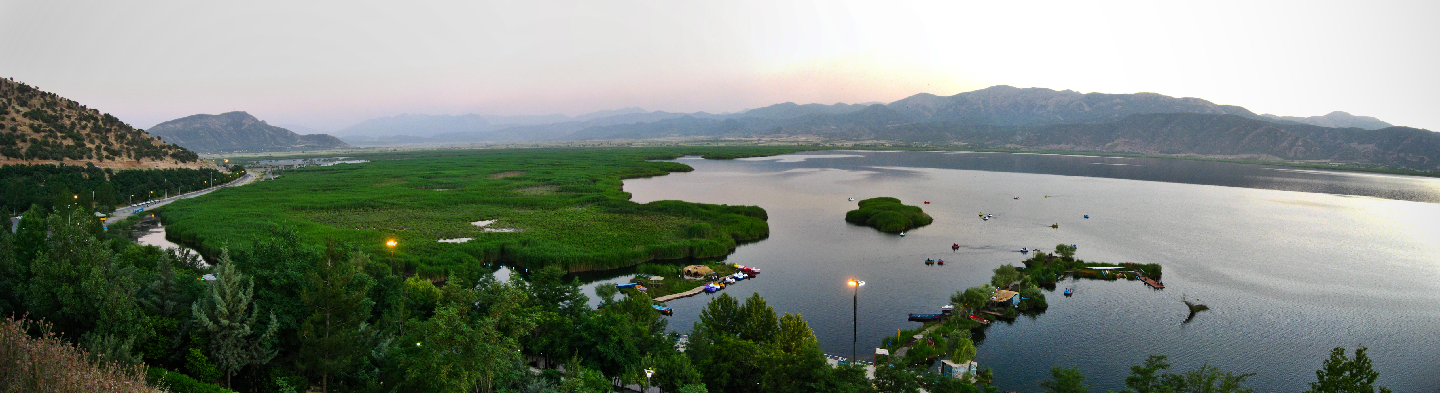 Lake Zrêbar in Merîwan, Kurdistan Kurdî: زەریاچەی زرێبار لە مەریوان